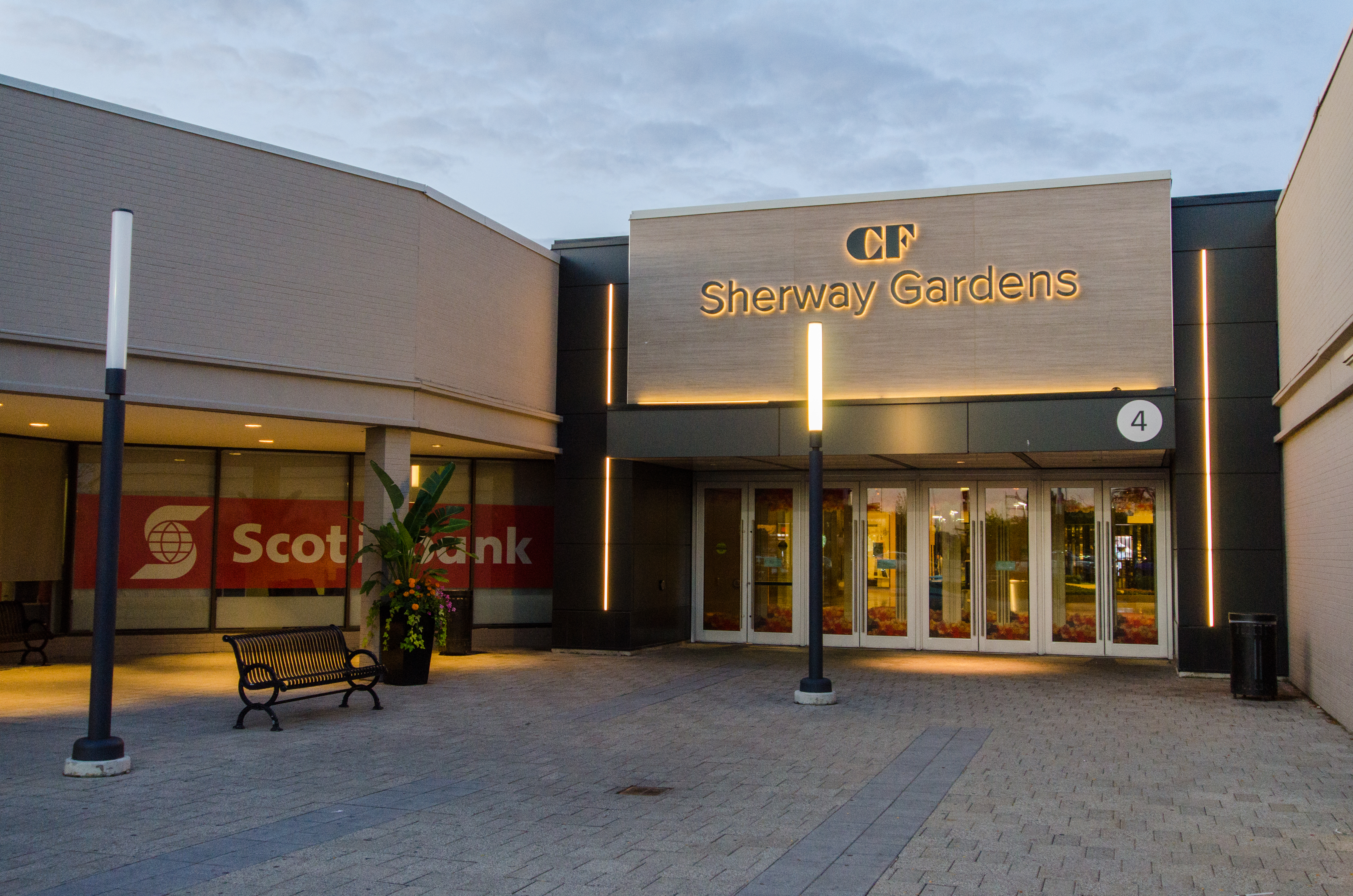 Seen in Mean Girls & The Sentinal.